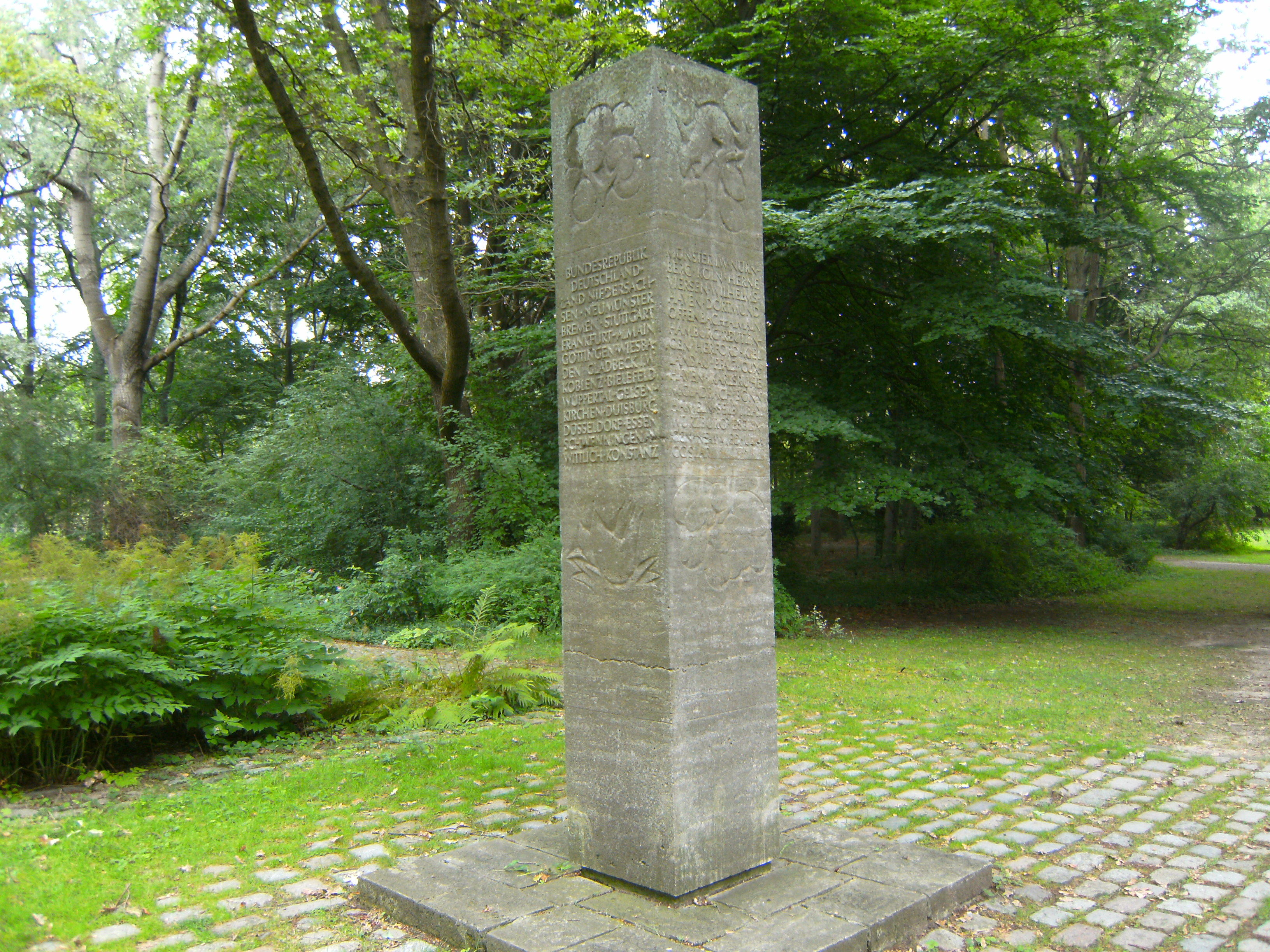 Park Großer Tiergarten in Berlin, Großer Weg: Baumdank-Denkmal (memorial) to remember the German cities giving trees to reafforest park Großer Tiergarten after World War II.